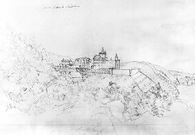 Ink drawing of Landsberg Castle